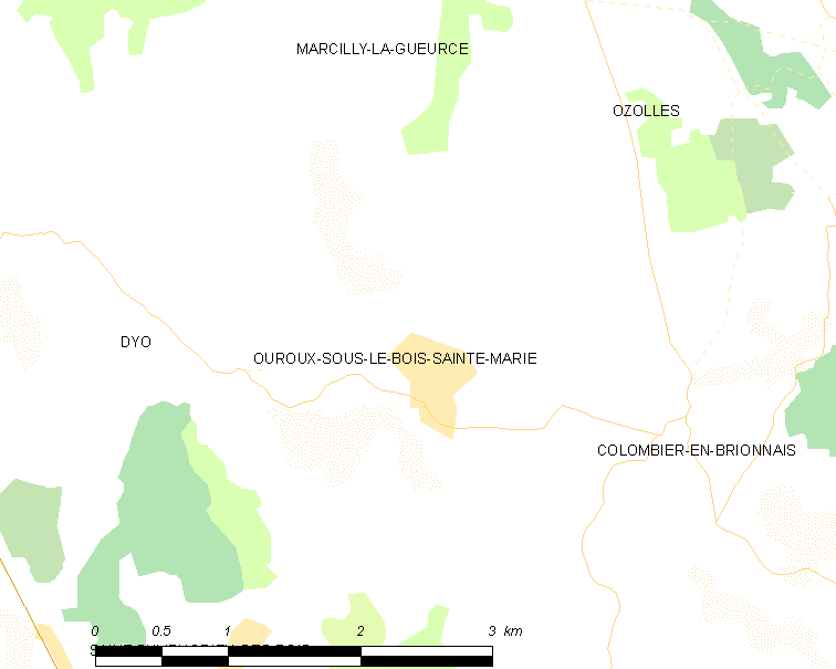 Map of French municipality